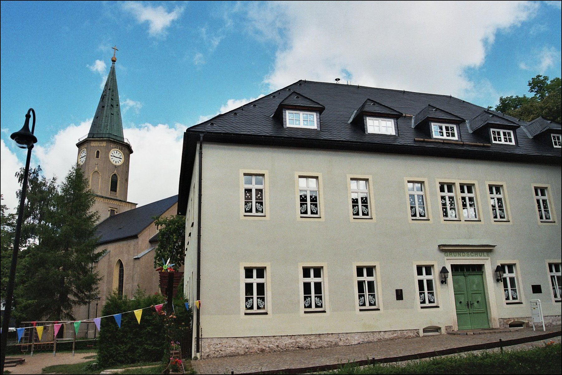 This image shows the church and the school in Sayda.